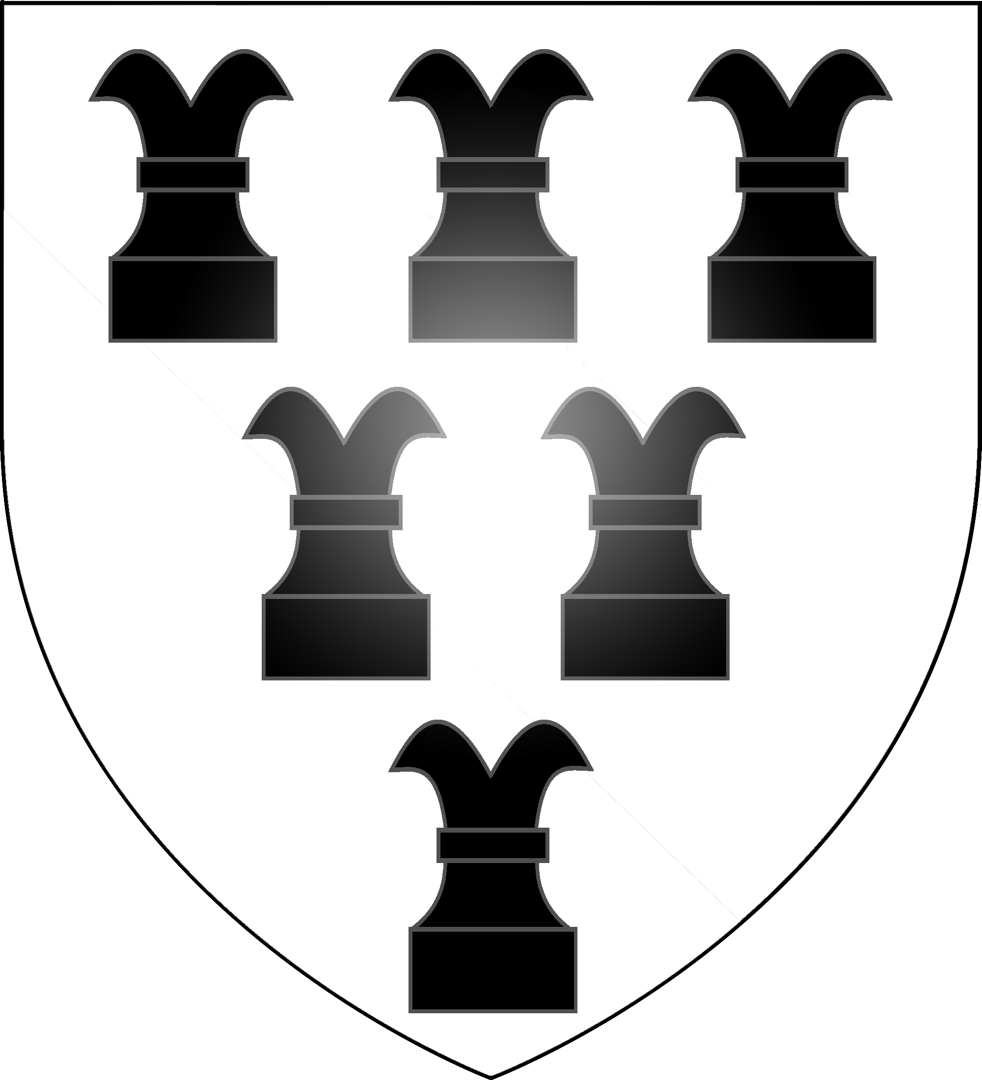 As described in Collectanea Topographica et Genealogica Vol 2: Argent, six chess-rooks Sable